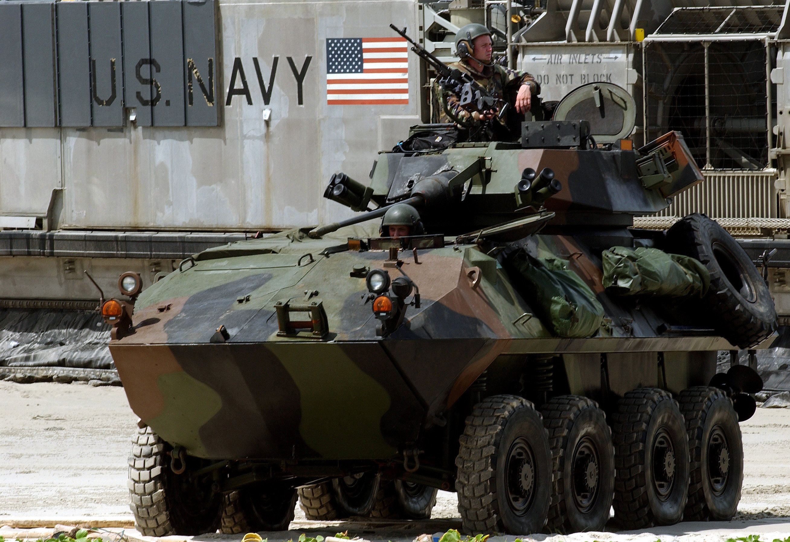 US Marine Corps (USMC) Marines drive their Light Armored Vehicle (LAV-25) along the beach at Samesan Royal Thai Marine Base, Thailand, after offloading from a US Navy (USN) Landing Craft-Air Cushion (LCAC) craft, during an amphibious assault exercise conducted during Exercise COBRA GOLD 2002.